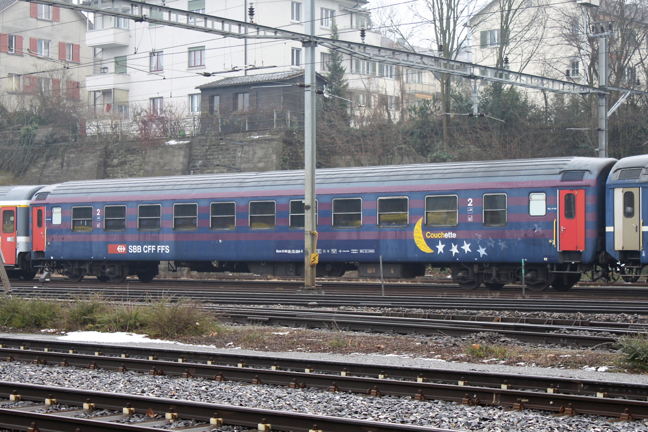 SBB CFF FFS couchette car Bcm 51 85 50-70 004-2 at Rorschach.